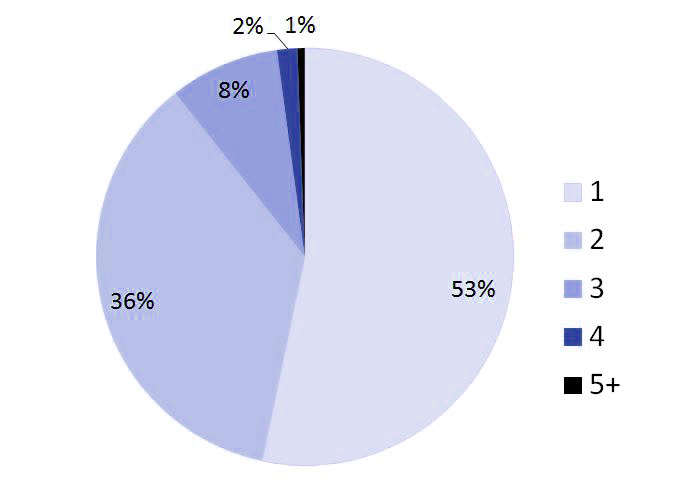 Number of children in households with minor children, Germany, 2011, data source: [1]